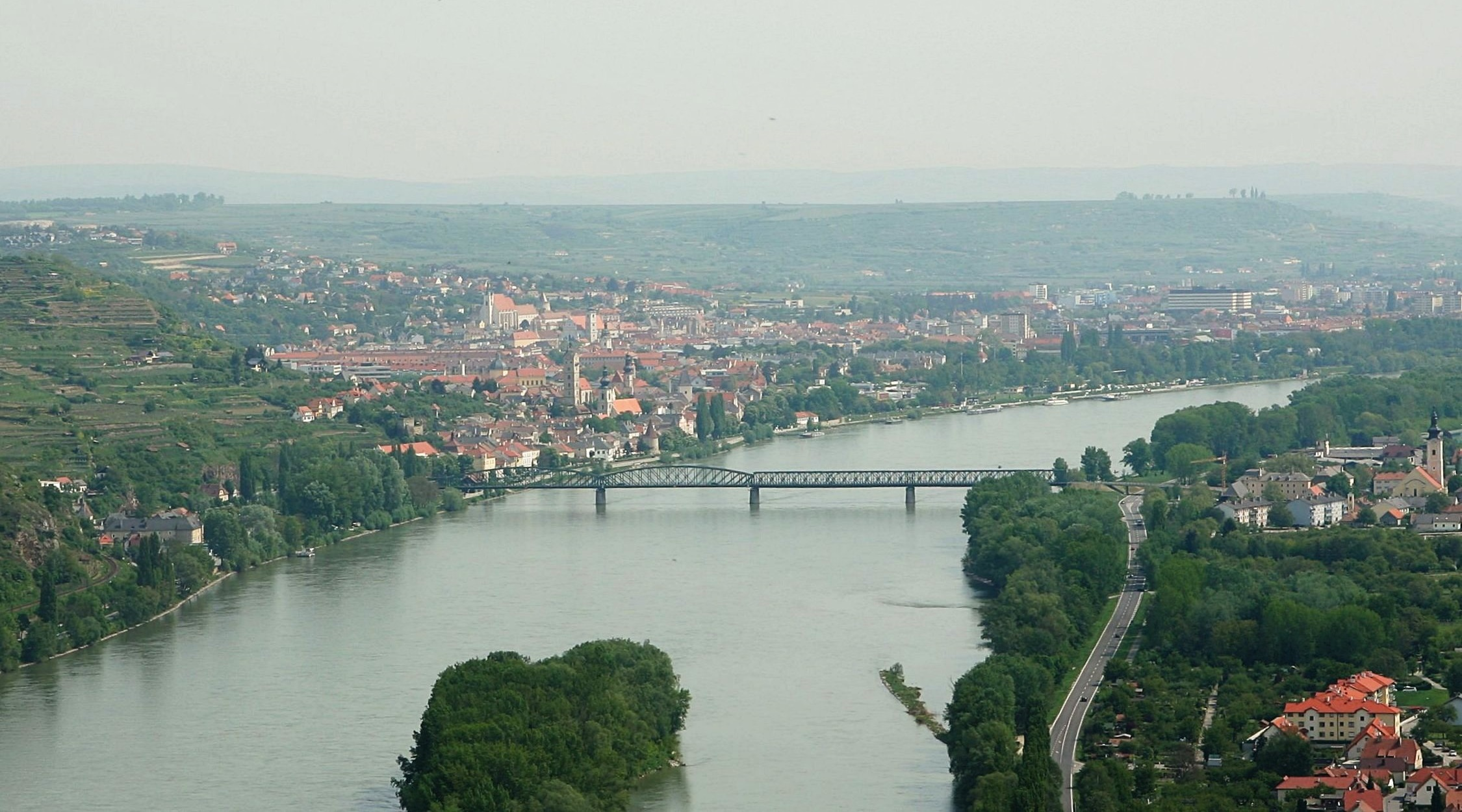 Danube in Austria between the cities of Krems (left) and of Mautern (right) seen from the Ferdinandswarte.